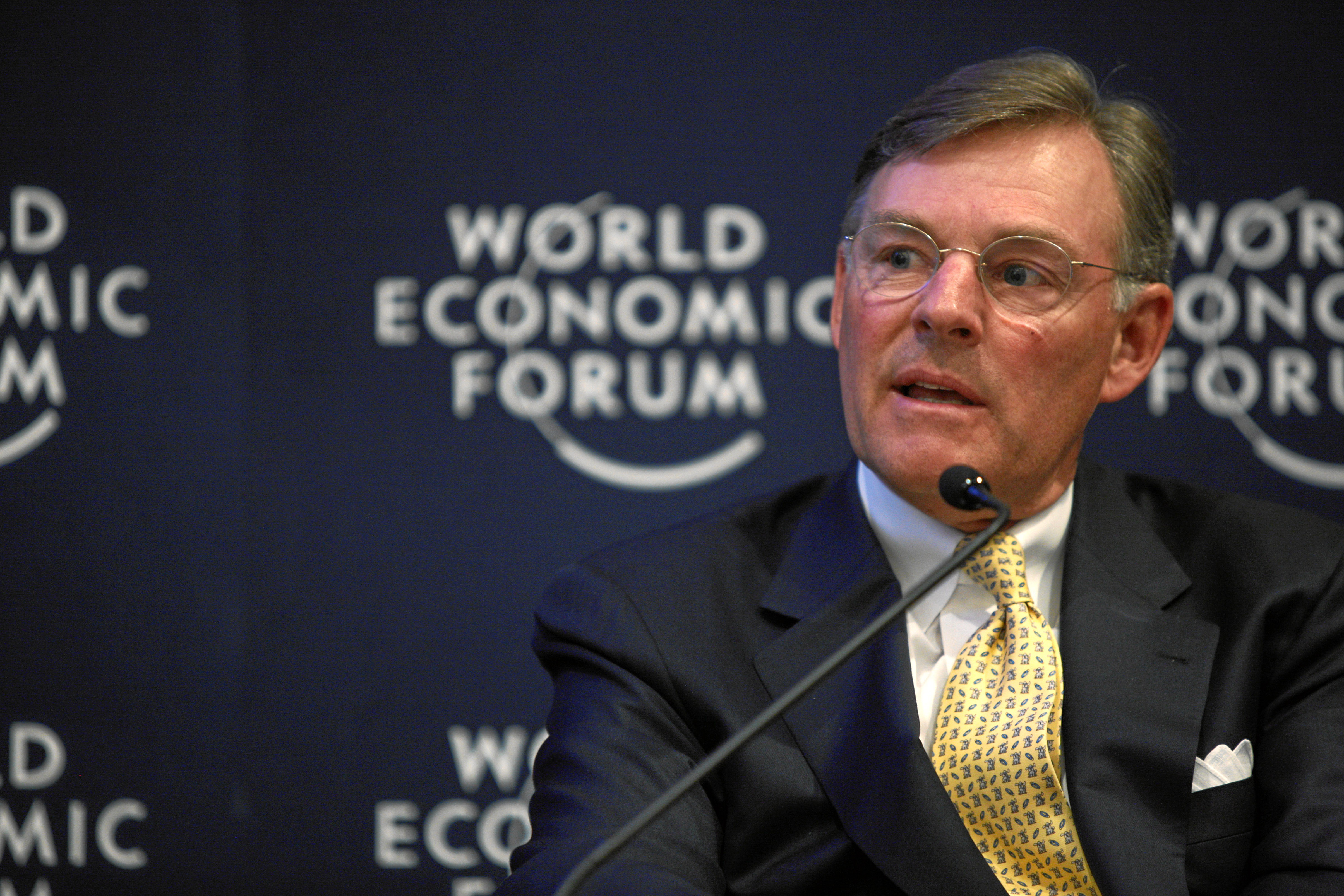 DAVOS/SWITZERLAND, 26JAN11 - Harold McGraw III, Chairman, President and Chief Executive Officer, McGraw-Hill Companies, USA are captured during the session 'Insights on India' at the Annual Meeting 2011 of the World Economic Forum in Davos, Switzerland, January 26, 2011.. . Copyright by World Economic Forum. by Jolanda Flubacher